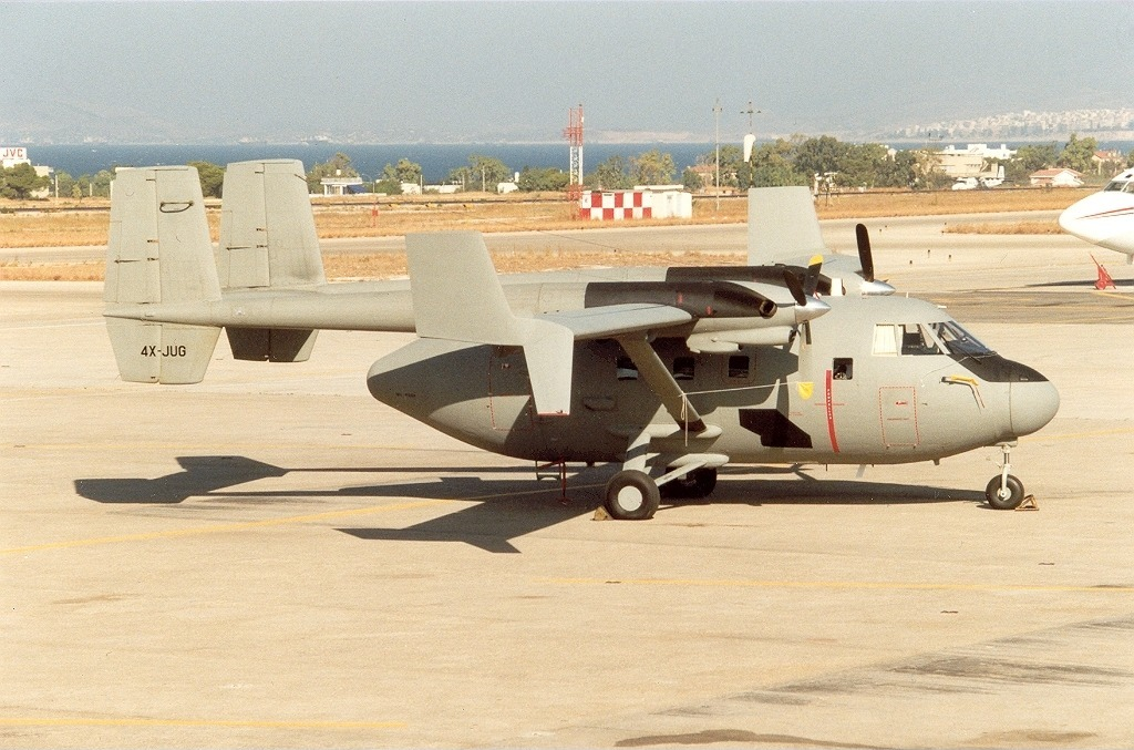 4X-JUG, IAI Arava 202, on tech stop at Athens Hellinikon Int'l Airport - LGAT, during eastbound ferry flight back to Israel after having been to USA.